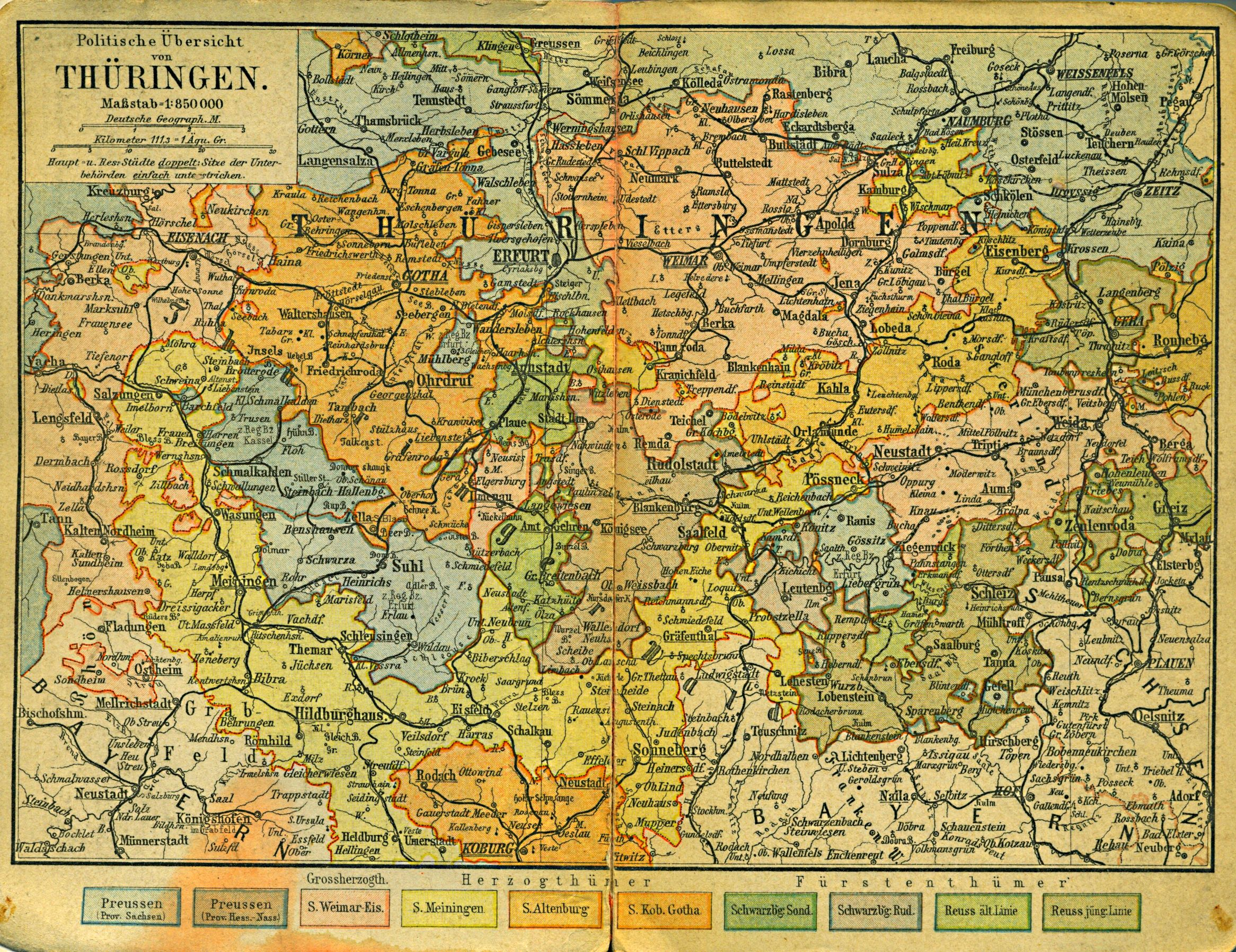 Thuringia. Political Overview 1894.